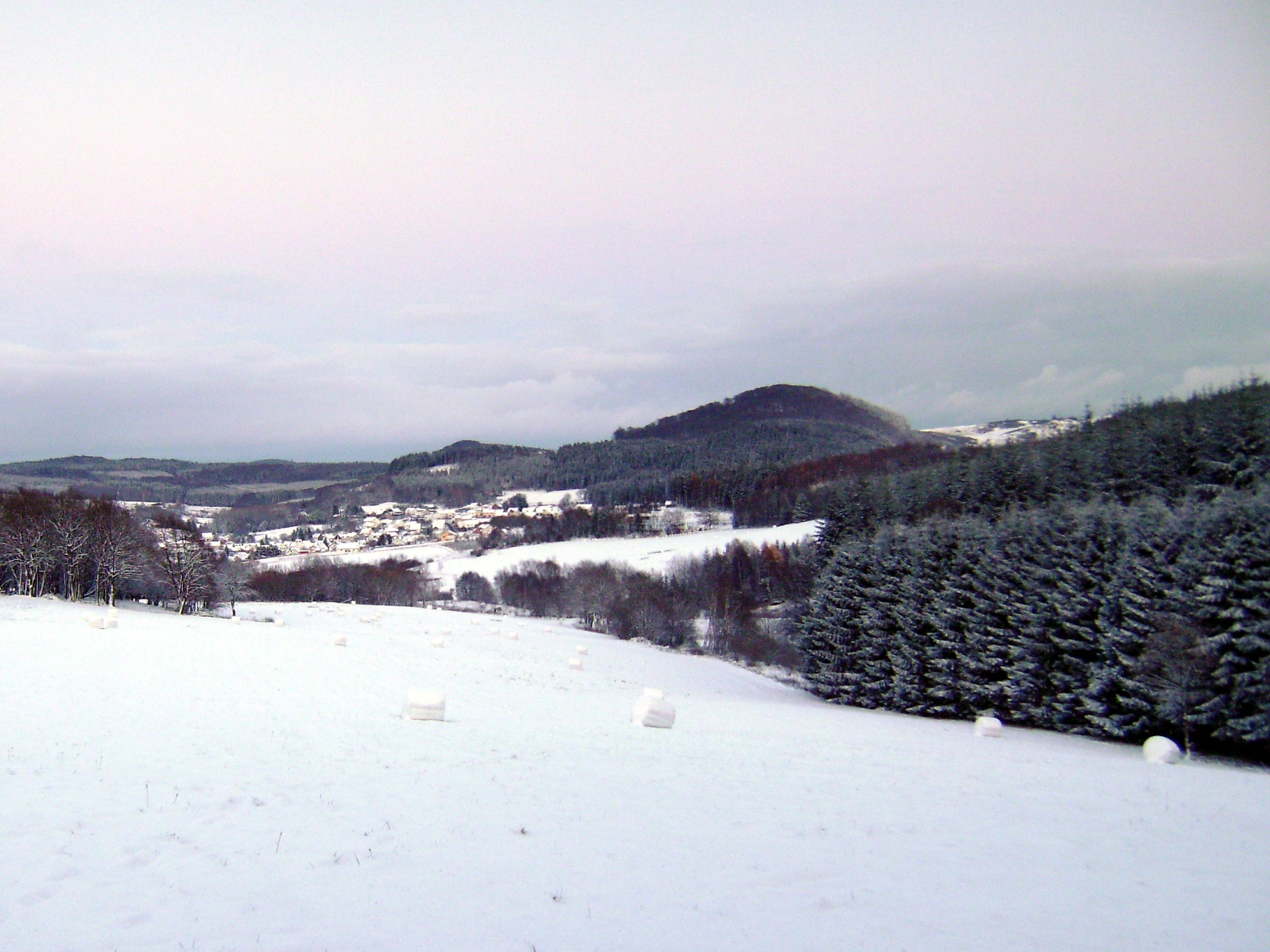 Nerother Kopf in winter, sight from the west („Forst Salm“)